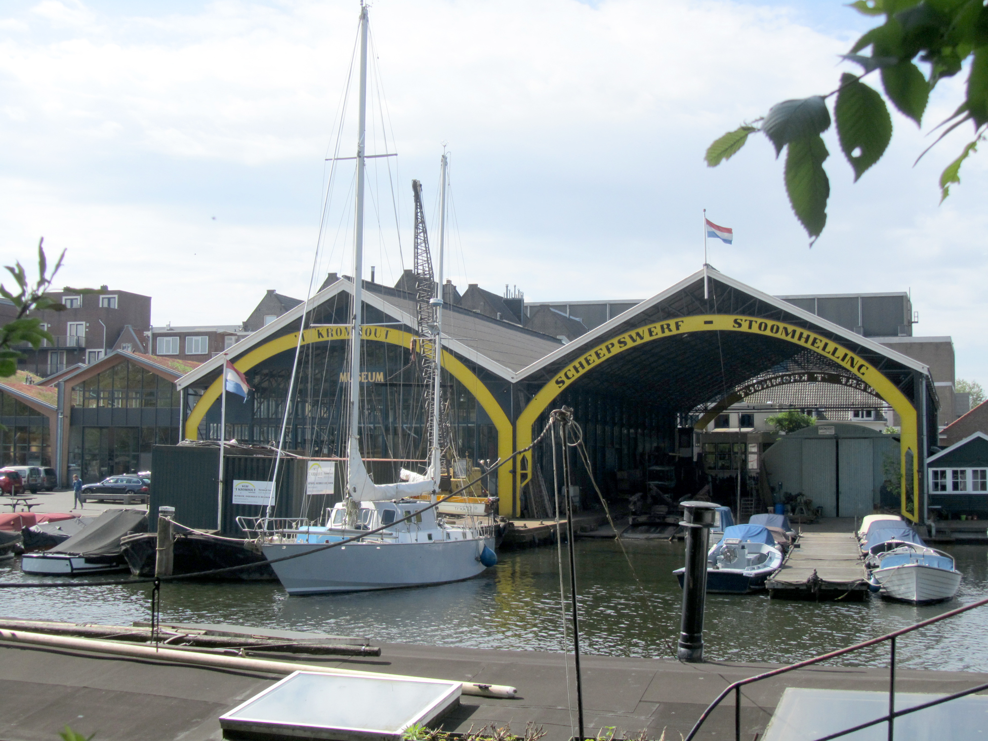 The historic shipyards Museumwerf 't Kromhout in Amsterdam